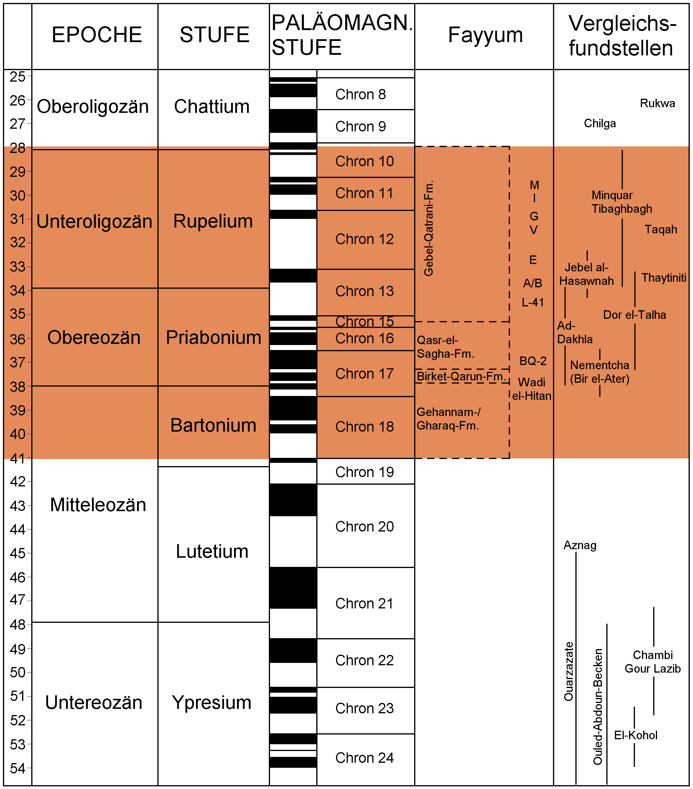 Schematic Stratigraphy of Fayum area, created using: Erik R. Seiffert: Revised age estimates for the later Paleogene mammal faunas of Egypt and Oman. PNAS 103 (13), 2006, pp. 5000–5005 Amin Strougo, Mahmoud Faris, Mona A. Y. Haggag, Radwan, A. Abdul-Nasr and Philip D. Gingerich: Planktonic foraminifera and calcareous nannofossil biostratigraphy through the middle to late Eocene transition at Wadi Hitan, Fayum Province, Egypt. Contributions from the Museum of Paleontology 32, 2013, pp. 111–138 Erik R. Seiffert: Chronology of the Paleogene mammal localities. In: Lars Werdelin and William Joseph Sanders (eds.): Cenozoic Mammals of Africa. University of California Press, Berkeley, Los Angeles, London, 2010, pp. 19–26